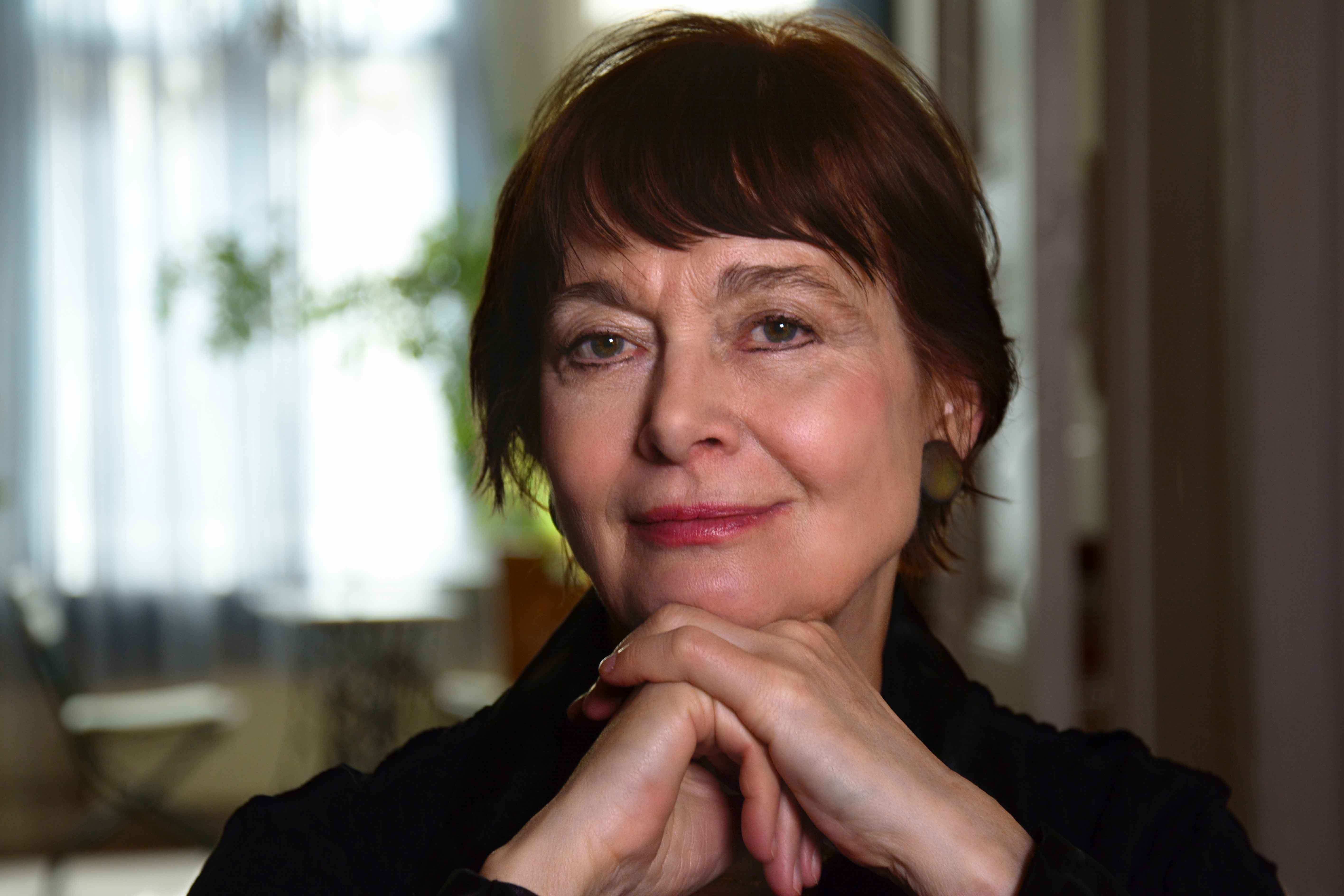 Barbara Sichtermann in ihrer Wohnung in der Alt-Moabit (Berlin, Tiergarten)